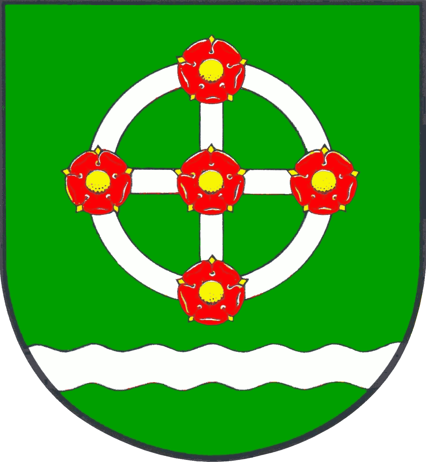 Coat of arms of Aukrug Blasonierung: In Grün über silbernem Wellenbalken ein silbernes Rad mit vier Speichen (Radkreuz), belegt in der Mitte und an den vier äußeren Enden der Speichen mit zusammen fünf roten, mit goldenen Samenkapseln und goldenen Kelchblättern versehenen Rosenblüten.